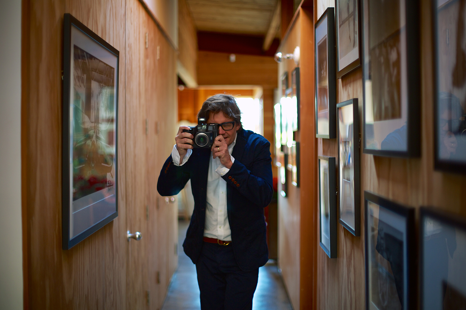 Portrait